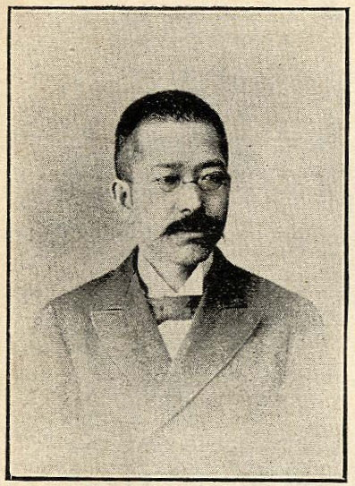 Taguchi Ukichi (田口卯吉) was a Japanese historian and economist of the Meiji period.